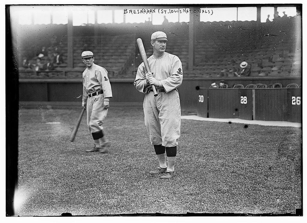 Bain News Service,, publisher. [Roger Bresnahan, St. Louis, NL, Miller Huggins in background (baseball)] [ca. 1911] 1 negative : glass ; 5 x 7 in. or smaller. Notes: Original data provided by the Bain News Service on the negatives or caption cards: Bresnahan (St. Louis Nat'ls). Corrected title and date based on research by the Pictorial History Committee, Society for American Baseball Research, 2006. Forms part of: George Grantham Bain Collection (Library of Congress). Subjects: Baseball Format: Glass negatives. Repository: Library of Congress, Prints and Photographs Division, Washington, D.C. 20540 USA, General information about the Bain Collection is available at Persistent URL: Call Number: LC-B2- 2212-1